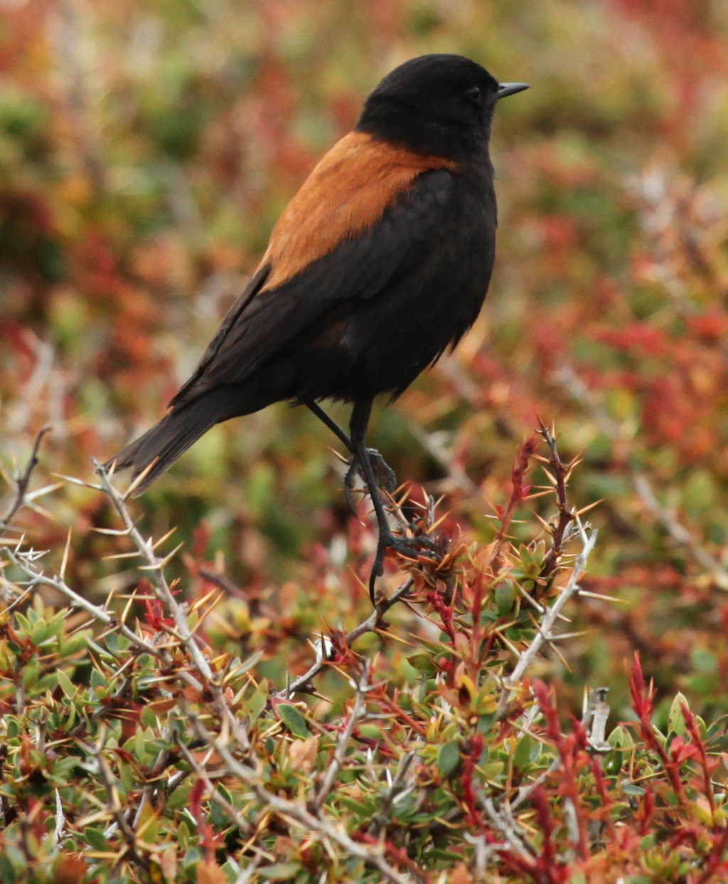 Photographed at Otway Sound in Chile.